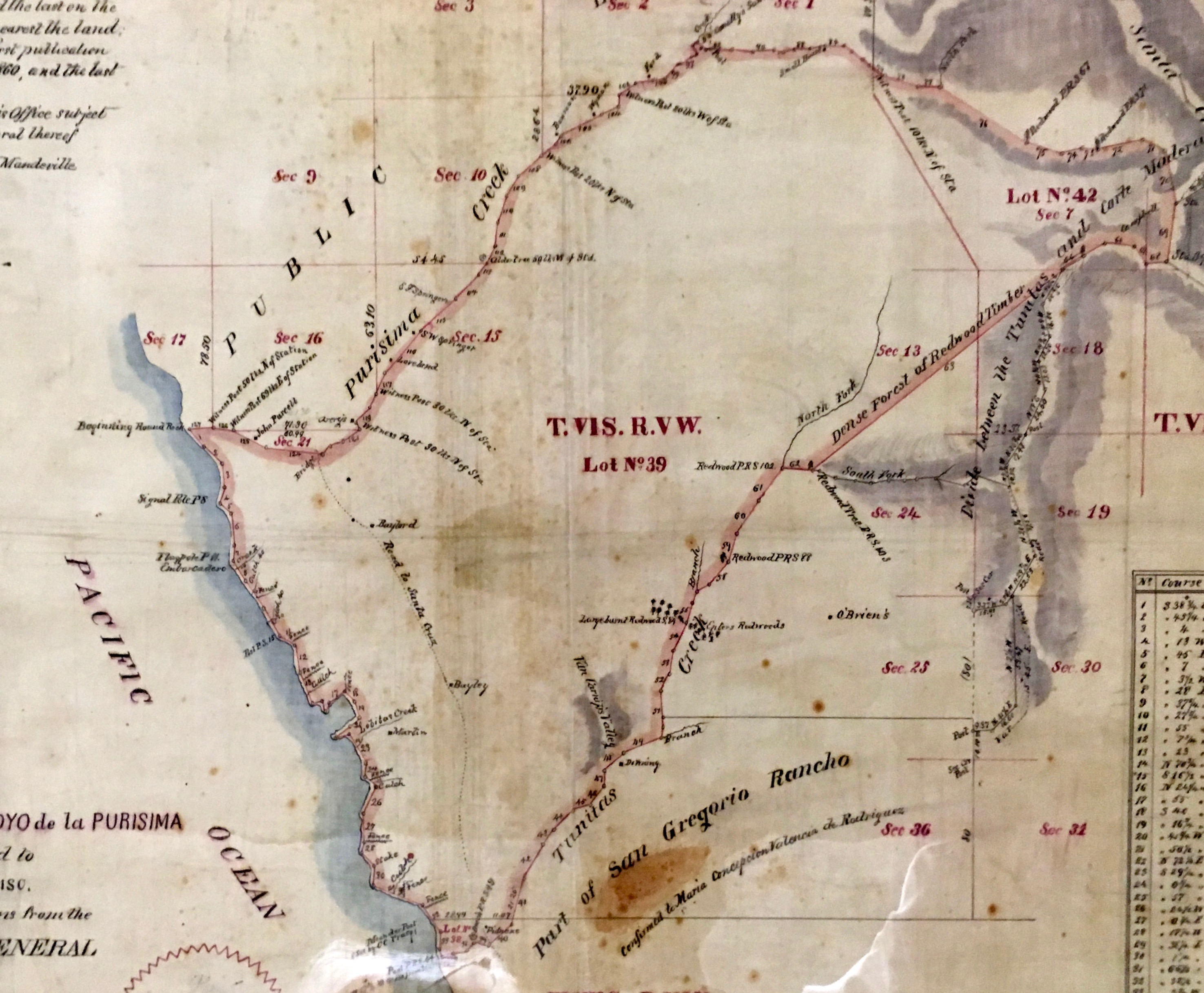 Confirmed 1860 grant to Jose Antonio Alviso. Includes road to Santa Cruz and buildings